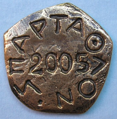 Spartathlon medal